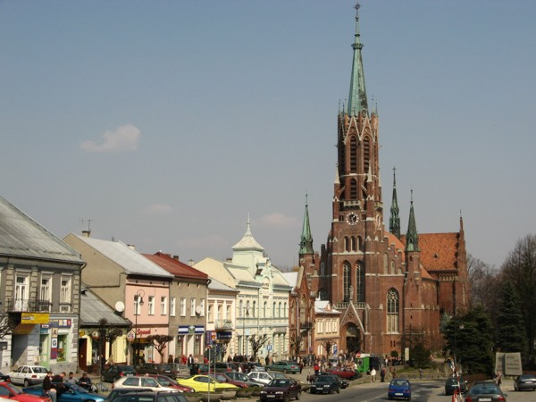 Main square in Grybów